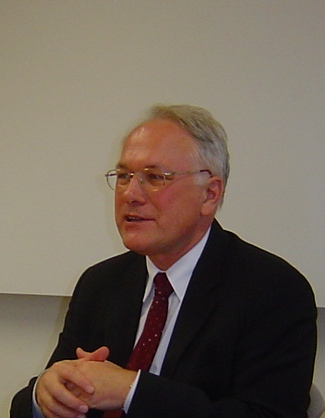 prof Stefan Jurga Rector of Adam-Mickiewicz-University in Braga (October 2006)